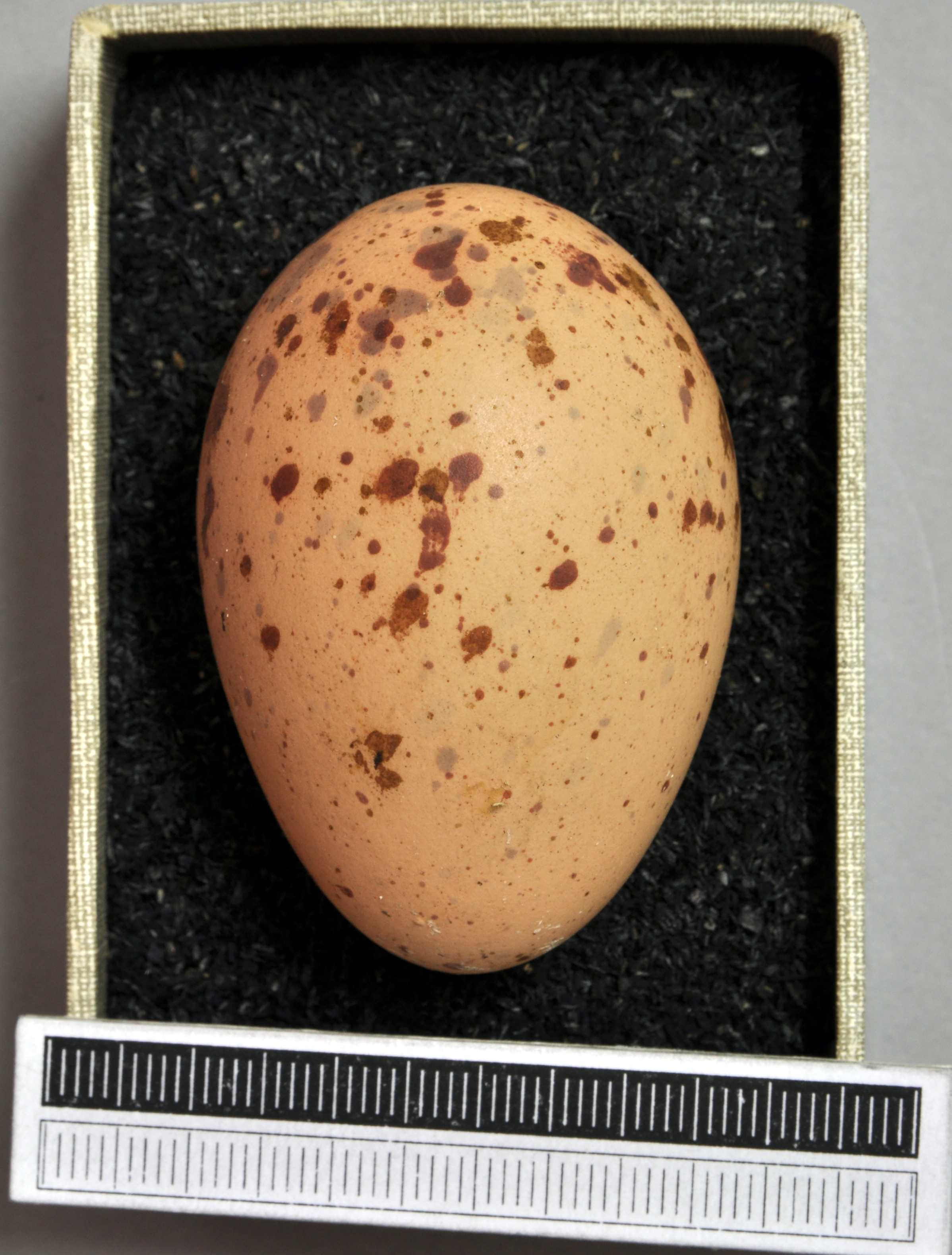 Purple swamphen Porphyrio porphyrio , egg, Coll. Museum Wiesbaden